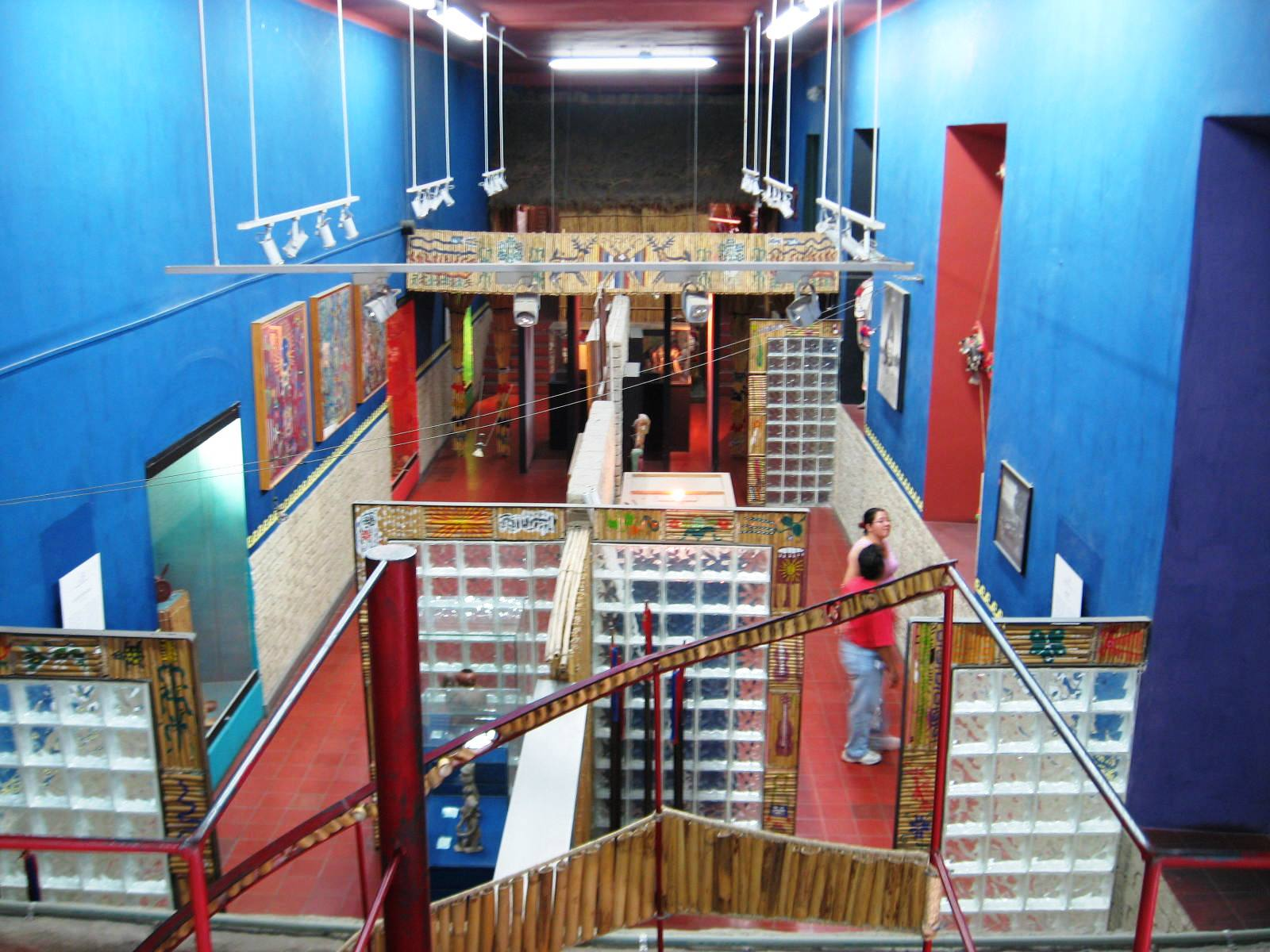 Interior of the Huichol Museum, located in the Basilica of Our Lady of Zapopan — in Zapopan, Jalisco state, México. Displaying works of the Huichol and other indigenous peoples.